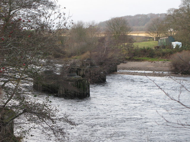 Bridge piers of the old Border Counties Railway viaduct (3). See 552109 and its link to information about the Border Counties Junction.